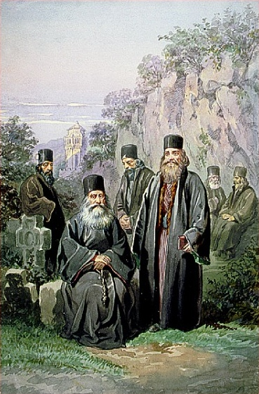 an aquarelle by Amedeo Preziosi